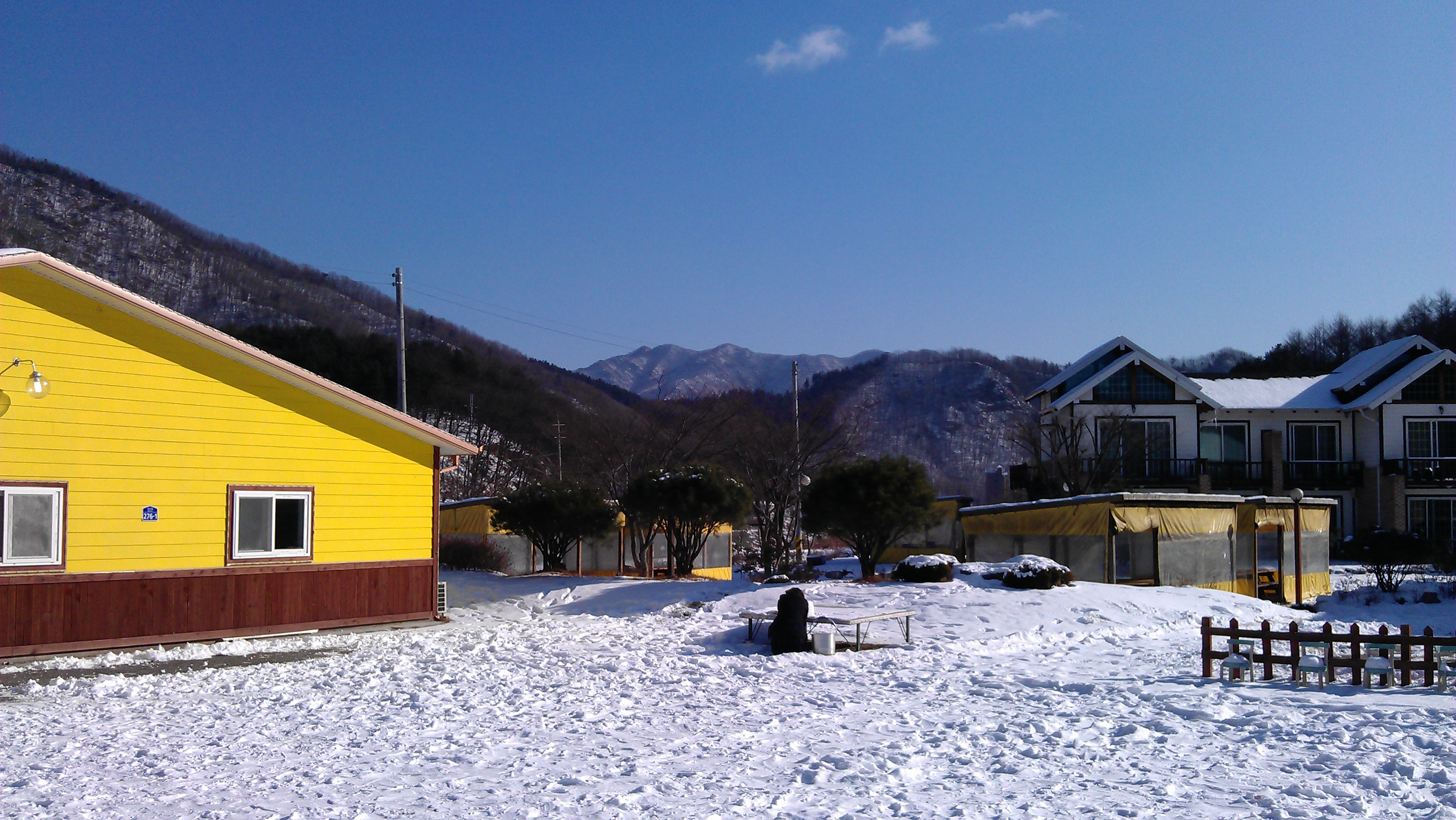 Mokkoji-ro in Daeseong-ri where many membership trainings take place.